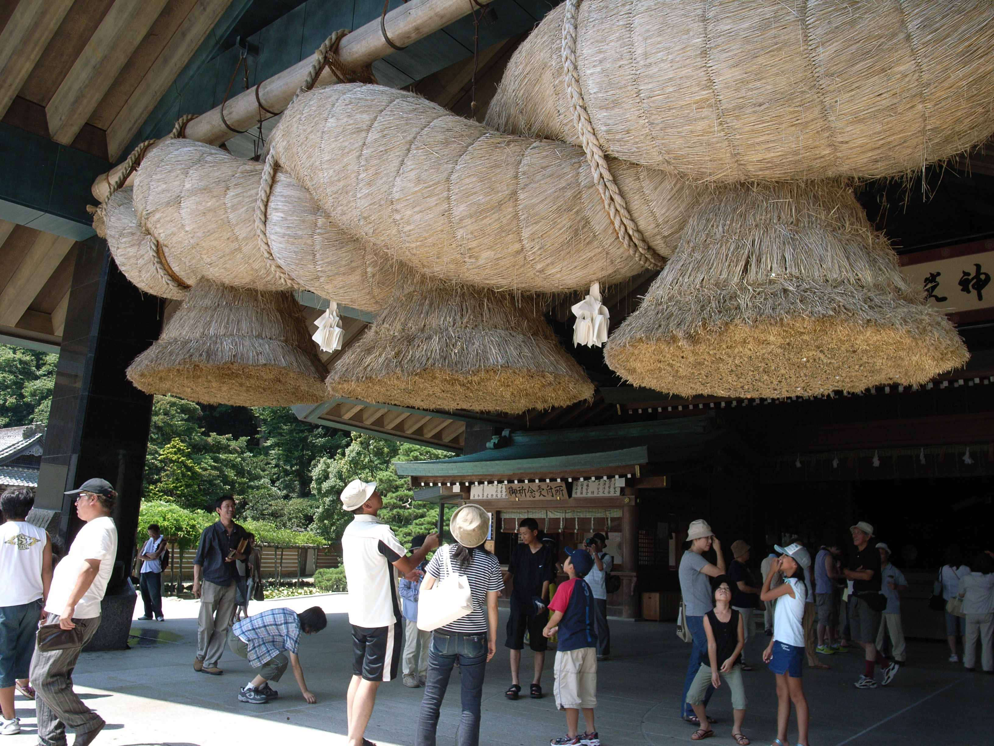 People throwing coins up at the shimenawa in the Izumo-taisha